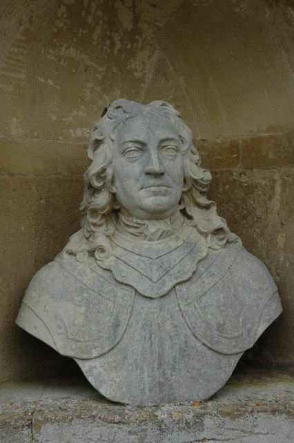 John Hampden, Temple of British Worthies, Stowe